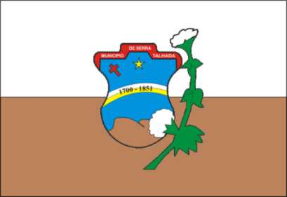 This is Serra Talhada Flag, an official symbol from the city of Serra Tahada, in Pernambuco state, Brazil